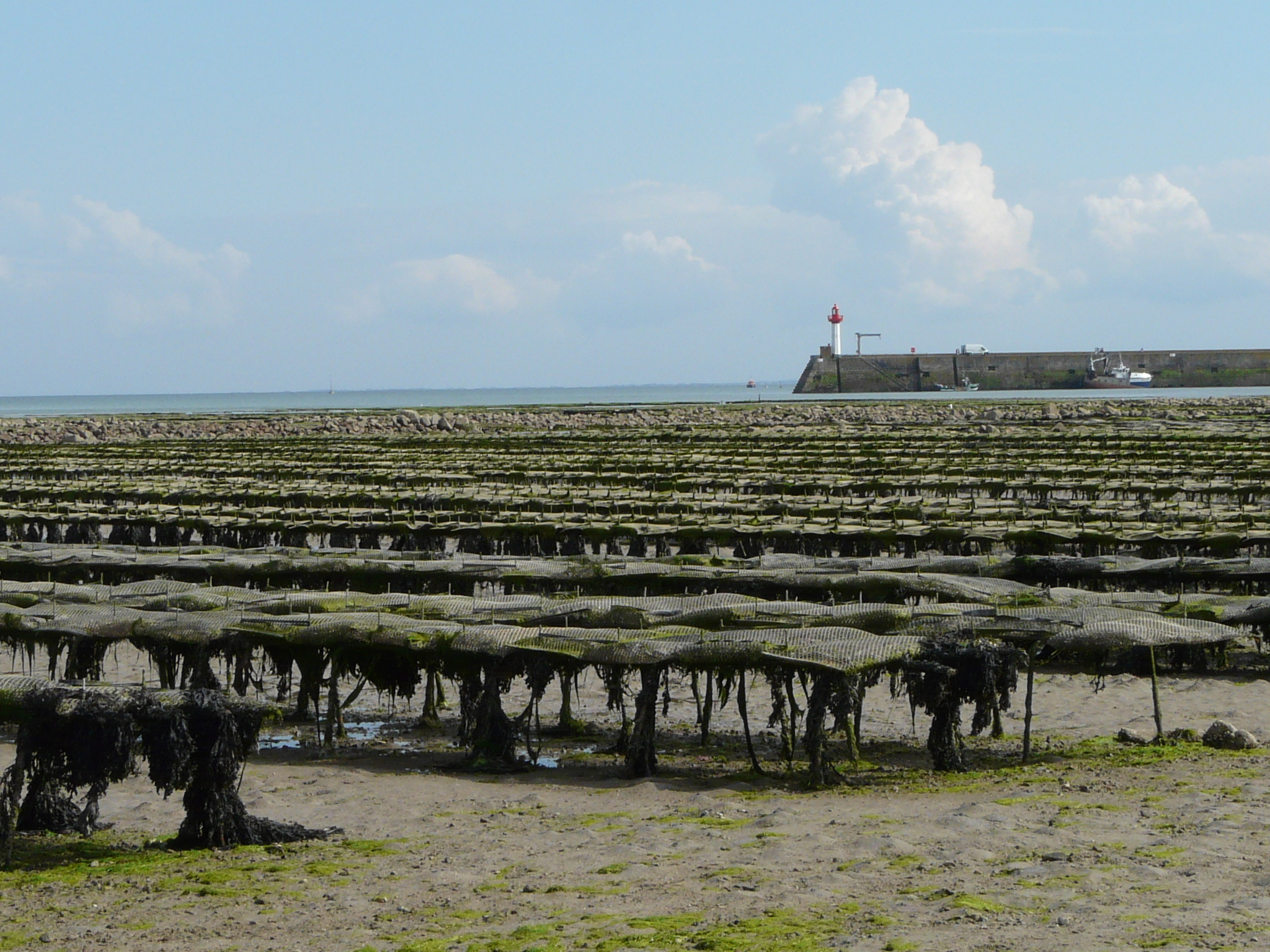 Oyster beds at low tide near the town of Saint-Vaast-la-Hougue, Normandy, France.